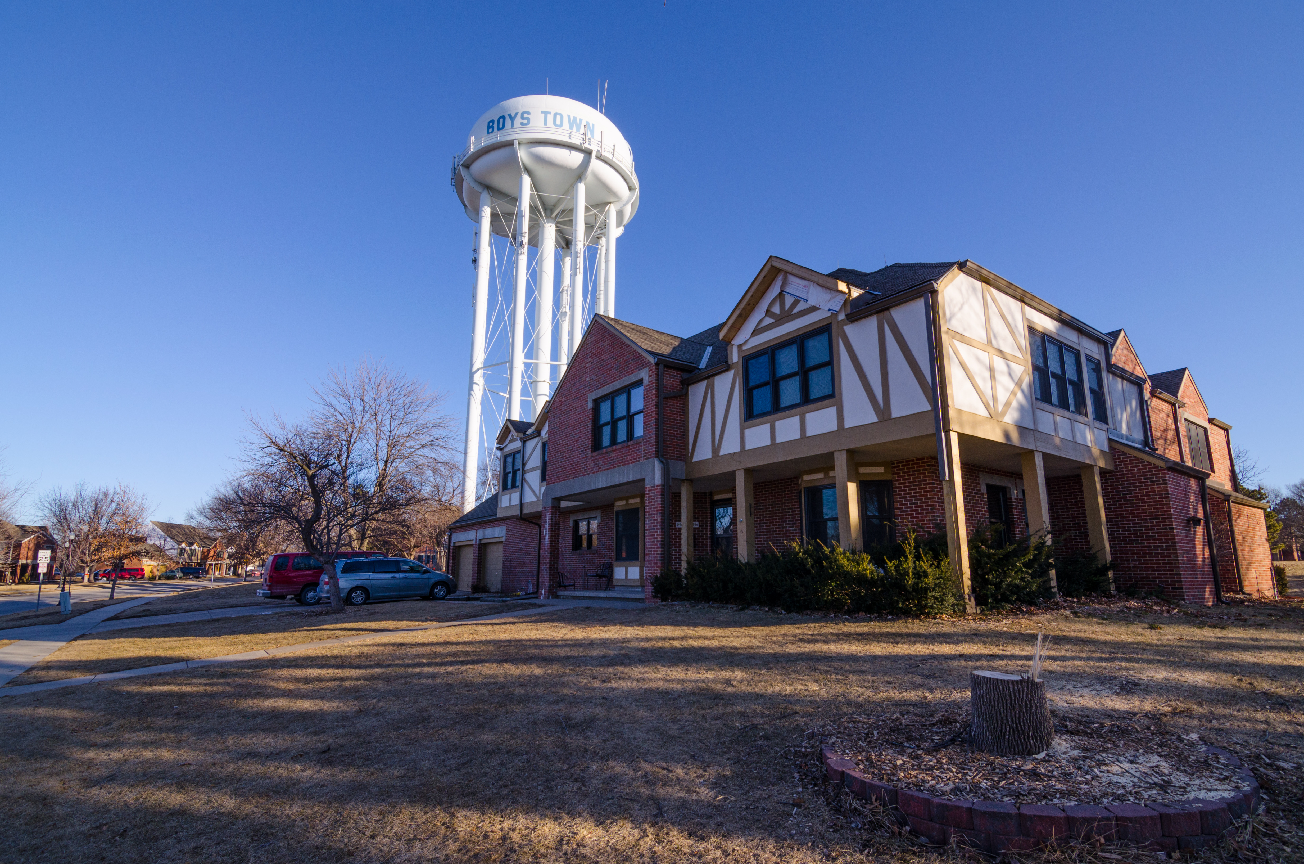 Boys Town Water Tower and home.